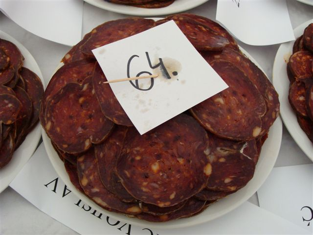 Kulinijada je tradicionalna manifestacija u Jagodnjaku za Spasovo.